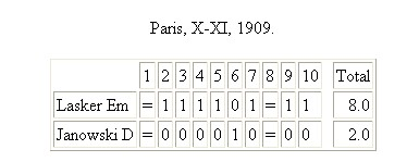 Chess_match 1909_Lasker_-_Janowski__b